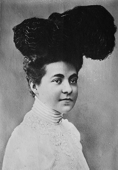 Hermine of Reuss